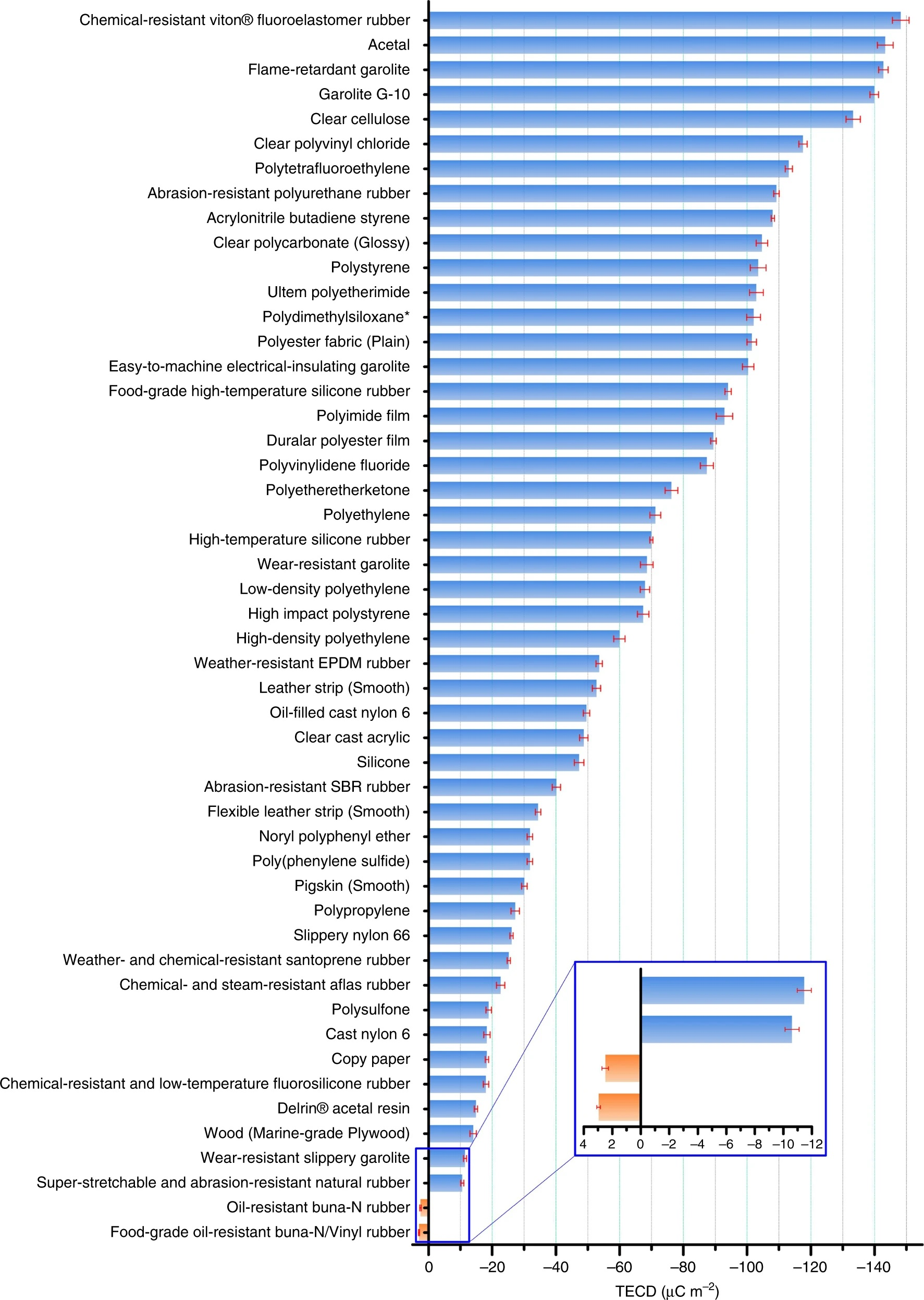 The quantified triboelectric series